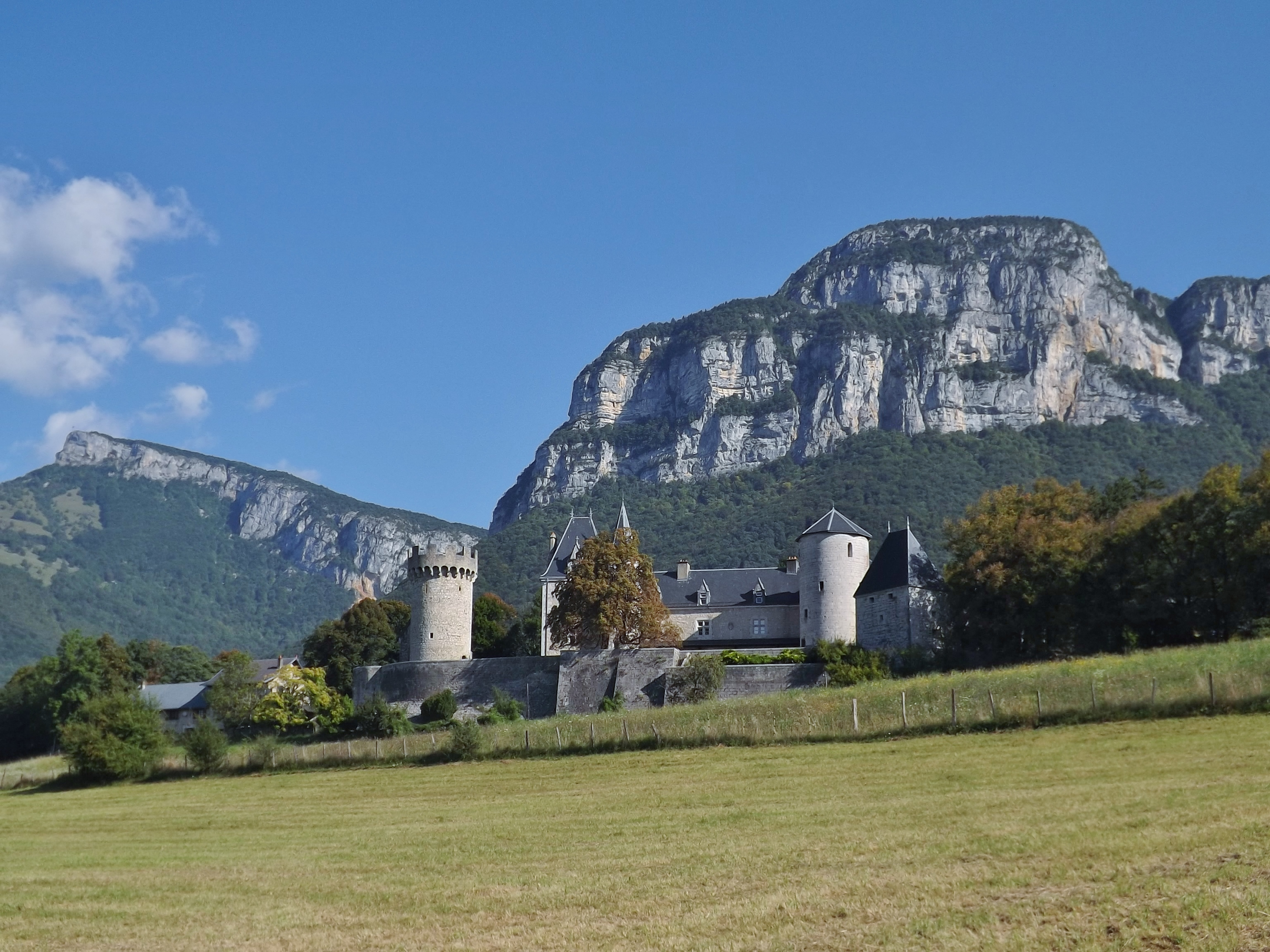 Sight of the château de la Bâtie castle, on the heights of Barby and Saint-Alban-Leysse, near Chambéry in Savoie, France. At the background can be seen the Nivolet and Peney mountains.